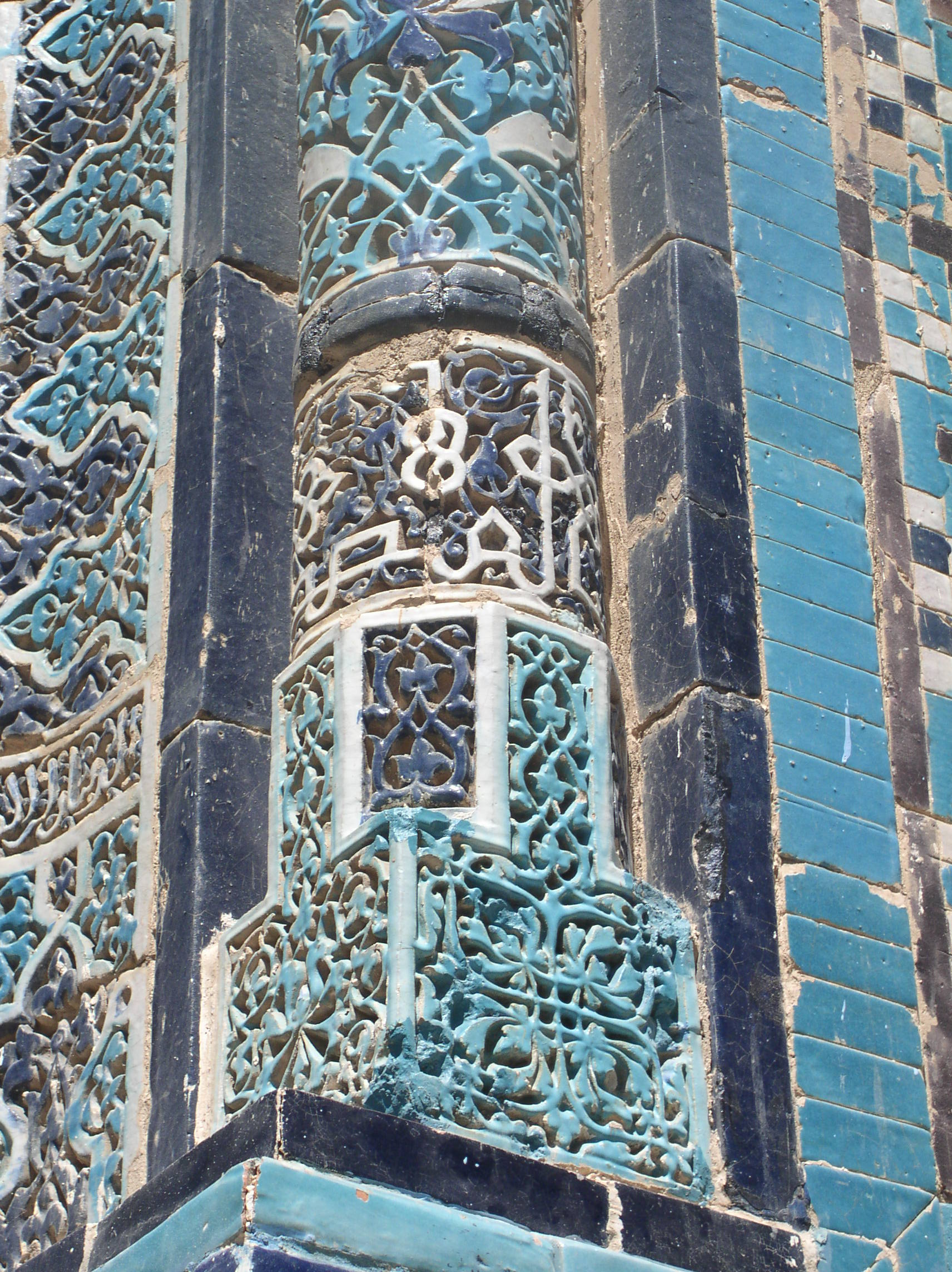 column in the Shah-i-Zinda complex, Samarkand